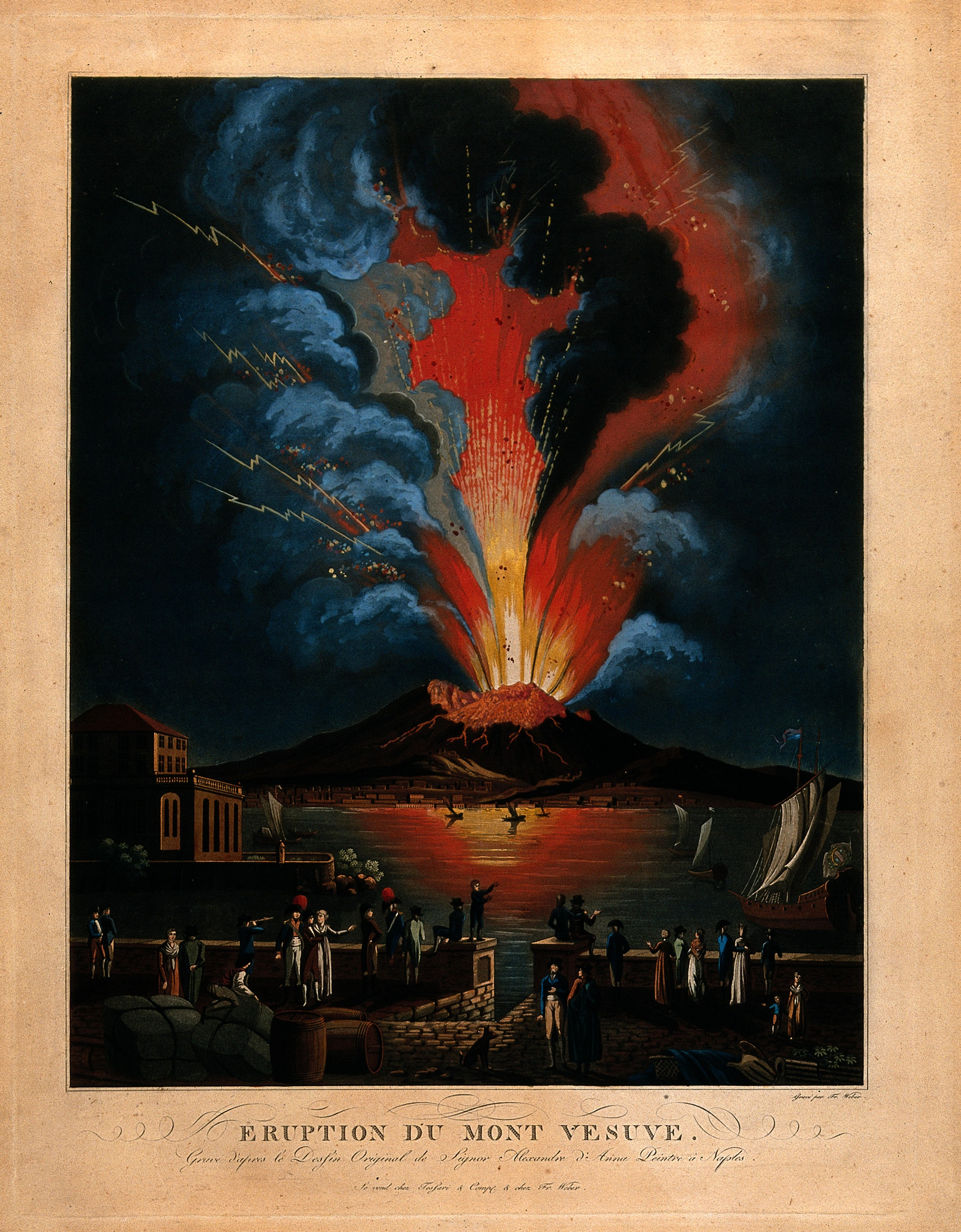 Eruption of the Vesuvius at night; people in the foreground. Aquatint by F. Weber after A. d'Anna, ca. 1820. Iconographic Collections Keywords: Alessandro d' Anna; F. Weber